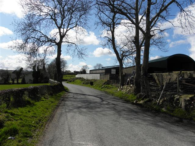 Road at Gortnavern